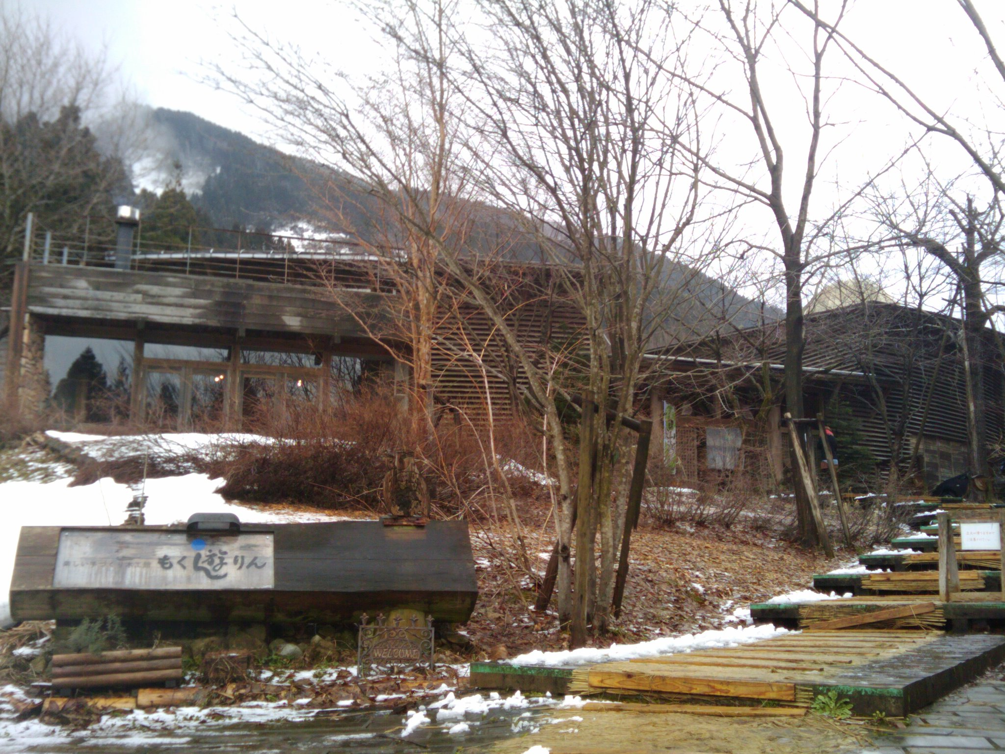 "Mokuyuurin" in Shishiku Plateau (Hakusan, Ishikawa, Japan)